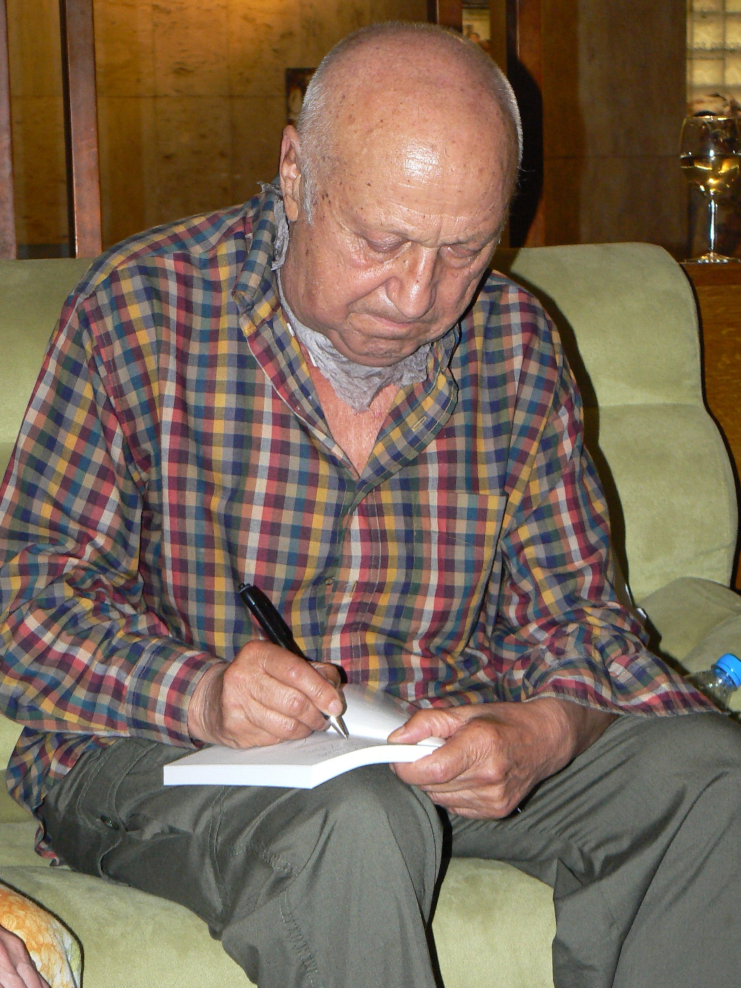 Bulgarian film director Rangel Vulchanov during the presentation of his two books, Cinema House, Sofia, 22 June 2012